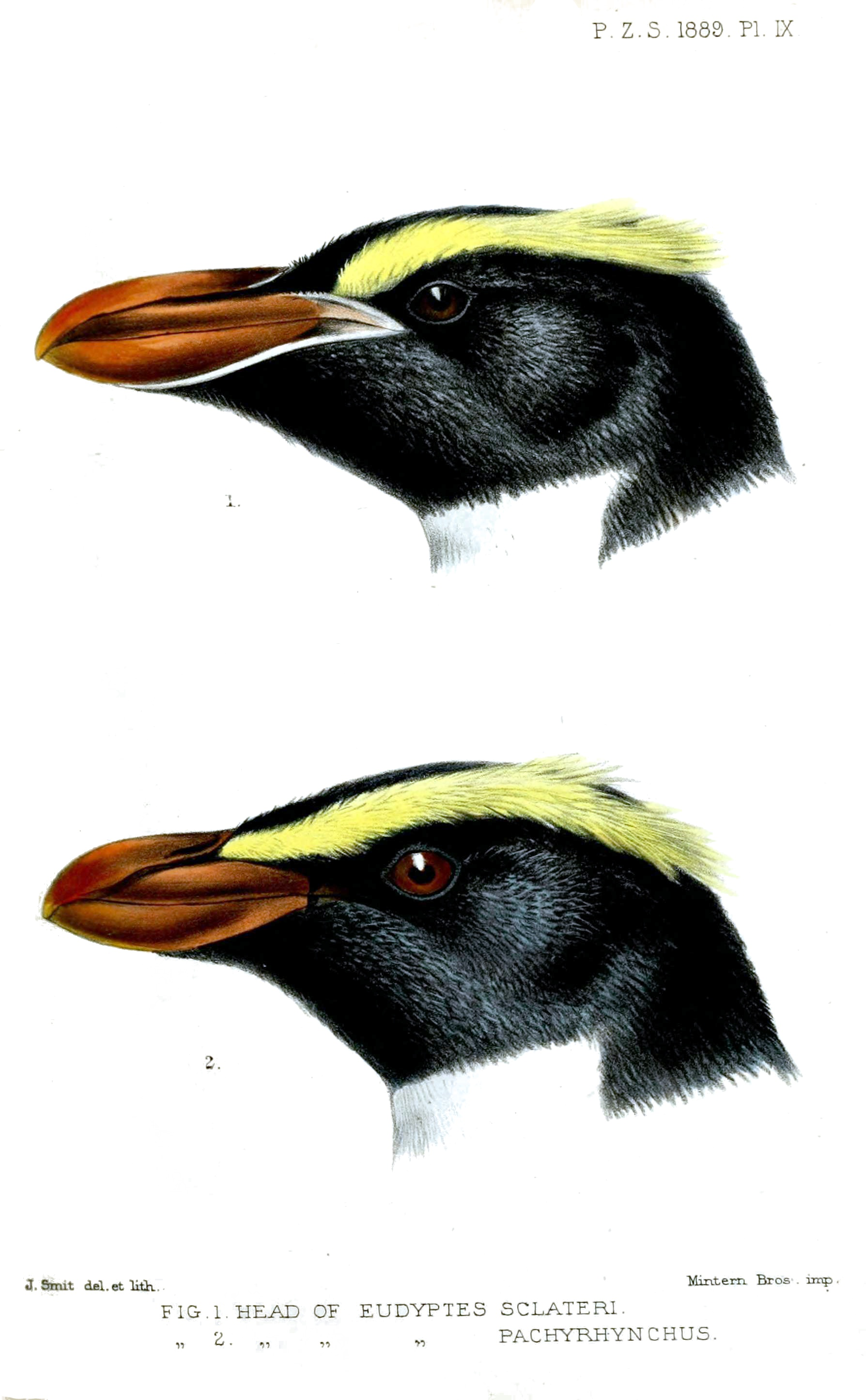 Heads of adult Erect-crested Penguin (above) and Fiordland Penguin (below), from left lateral.